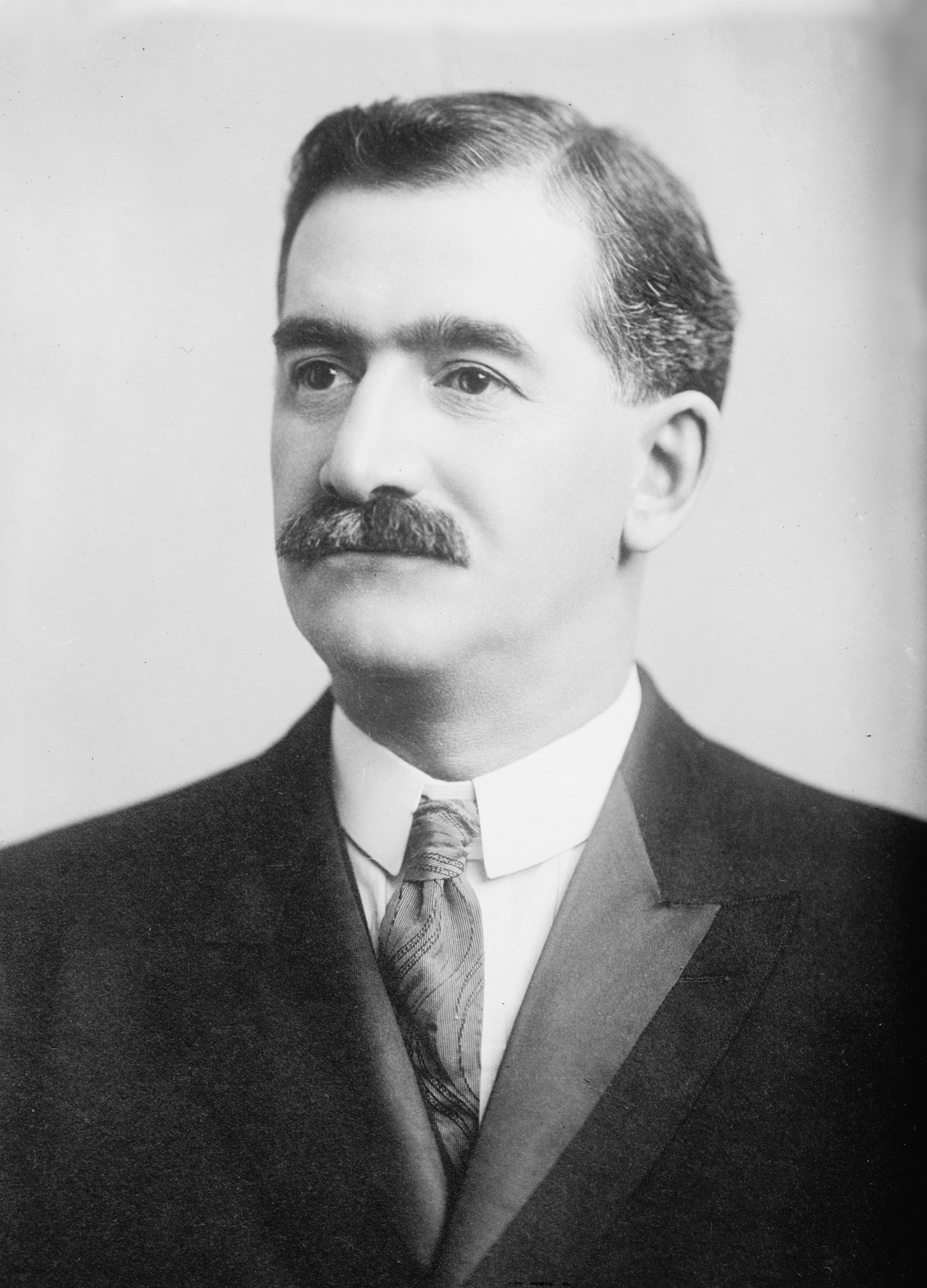 Bain News Service,, publisher. William Robinson Pattangall [between ca. 1910 and ca. 1915] 1 negative : glass ; 5 x 7 in. or smaller. Notes: Title from unverified data provided by the Bain News Service on the negatives or caption cards. Forms part of: George Grantham Bain Collection (Library of Congress). Format: Glass negatives. Repository: Library of Congress, Prints and Photographs Division, Washington, D.C. 20540 USA, General information about the Bain Collection is available at Persistent URL